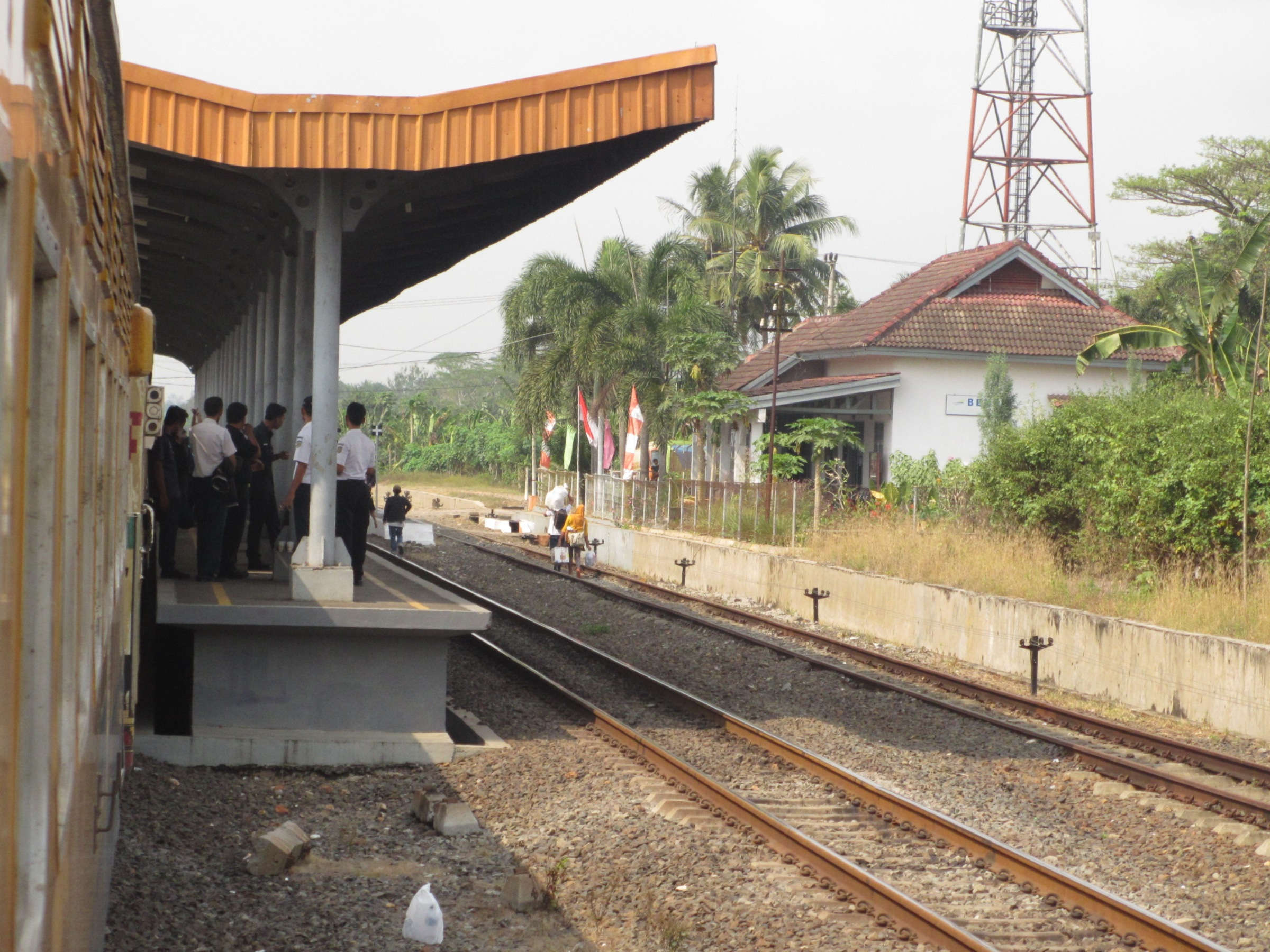 Bekri Railway Station.